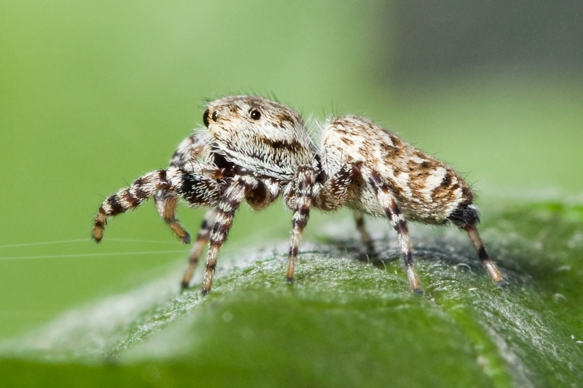 Peppered jumper (Pelegrina galathea) (female) at Shelby Park in Nashville, Tennessee. Body length: 4.5 mm.